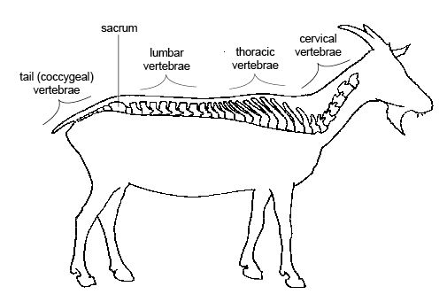 Vertebral column of a goat. By Ruth Lawson. Otago Polytechnic.